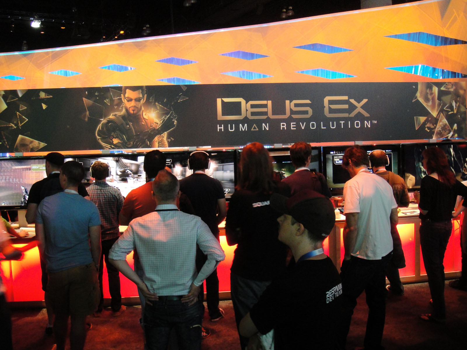 photo 2011 taken by Doug Kline If you're interested in higher resolution versions of my images, contact me via my profile page.